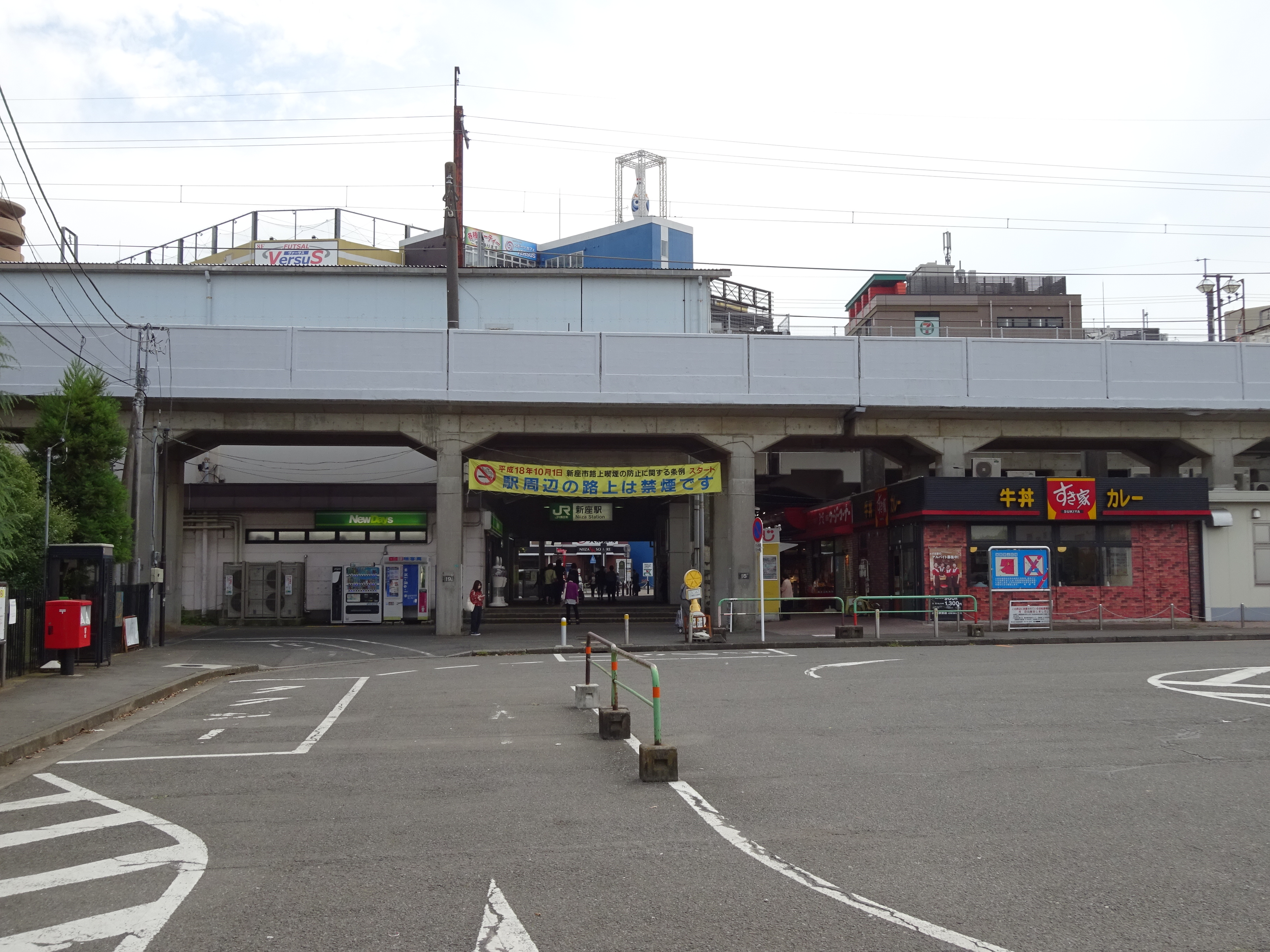 North entrance of Niiza Station